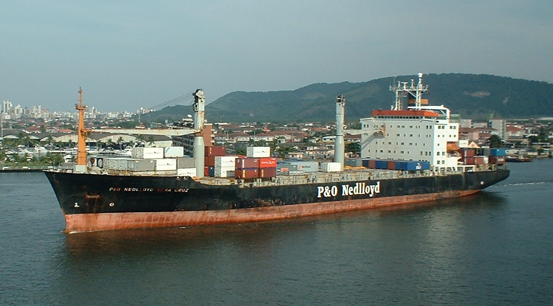 Container vessel P&O Nedlloyd Vera Cruz outbound Santos/Brazil